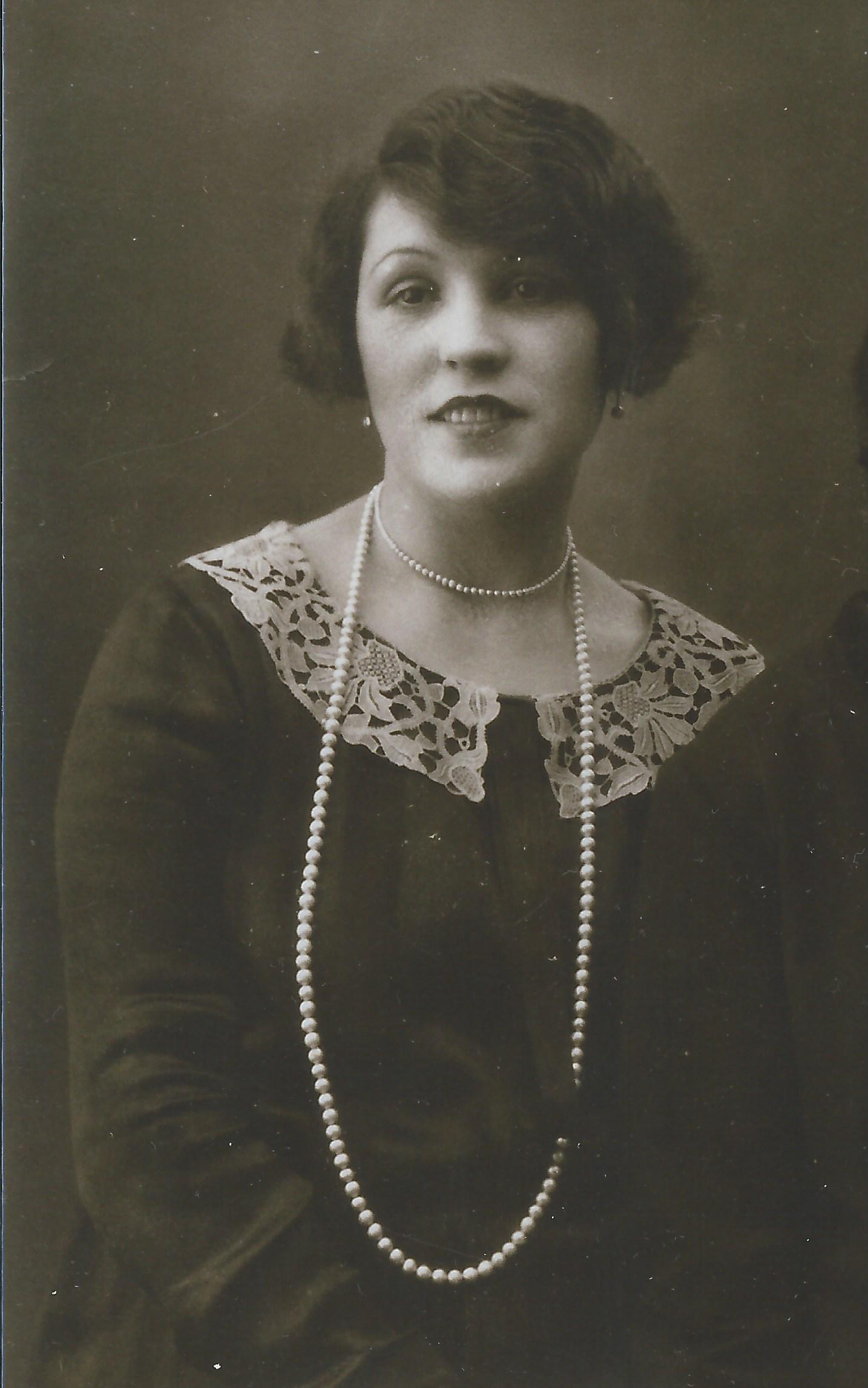 This is a picture of a descendant of the Valencian branch of the Verdes-Montenegro family.